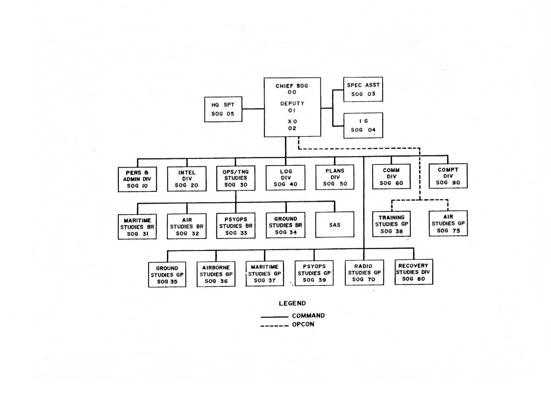 MACV Command History 1969, Annex F, page F-A-1 (can be consulted at